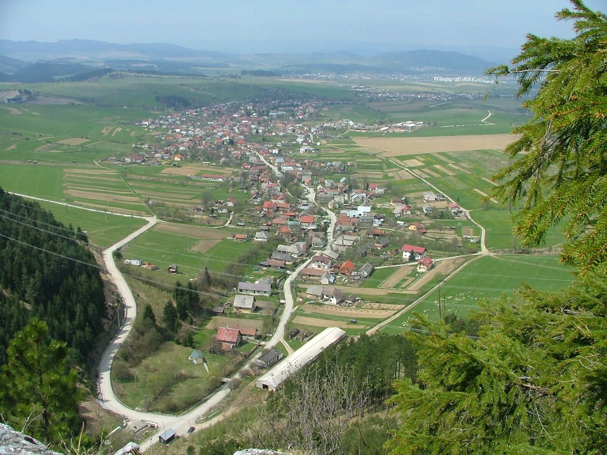 Visnove z Hoblika